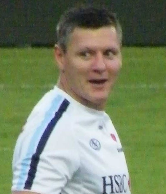 NSW Waratahs kicking coach Matthew Burke flirts during a game of drop the kicking tee.